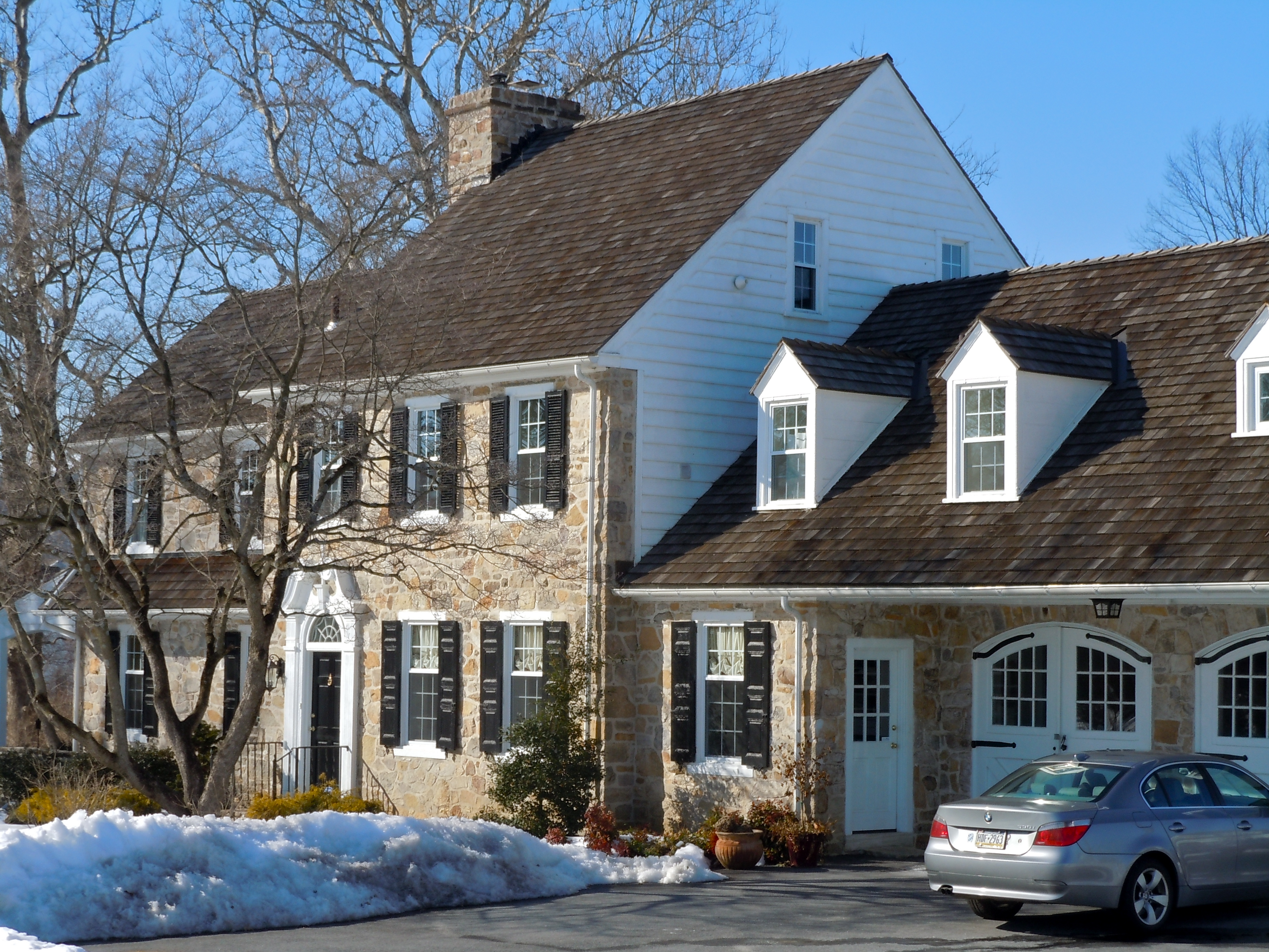 Woodledge house built 1935 on the NRHP since July 28, 1988. At 525 West Lincoln Highway (US 30) - now a bit more hidden inside a development - in West Whiteland Township, Chester County, Pennsylvania. Home to a steel magnate, historic preservationist. Colonial Revival style in an area with many real colonial buildings.